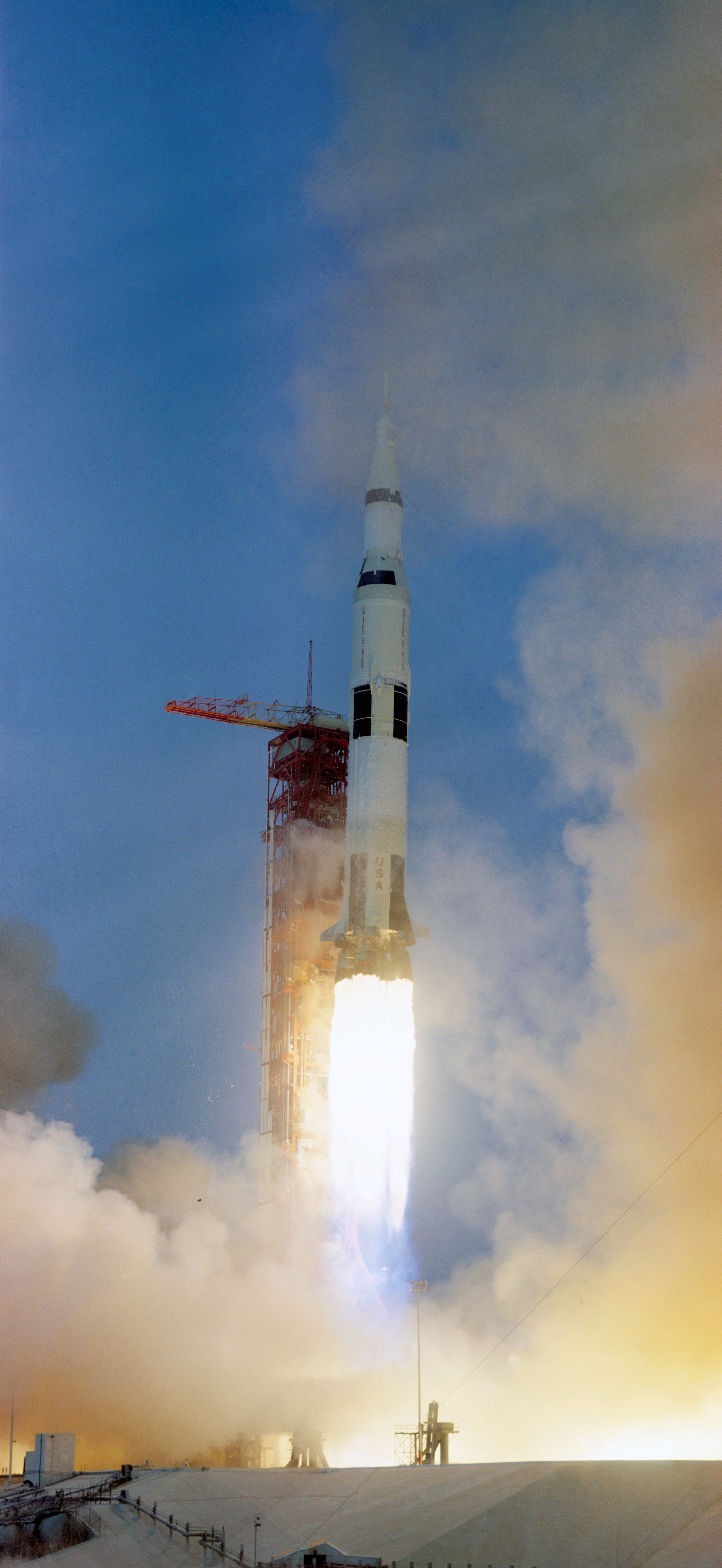 S70-34854 (11 April 1970) --- The Apollo 13 (Spacecraft 109/Lunar Module 7/Saturn 508) space vehicle is launched from Pad A, Launch Complex 39, Kennedy Space Center (KSC), at 2:13 p.m. (EST), April 11, 1970. The crew of the National Aeronautics and Space Administration's (NASA) third lunar landing mission are astronauts James A. Lovell Jr., commander; John L. Swigert Jr., command module pilot; and Fred W. Haise Jr., lunar module pilot